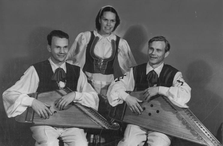 Singer Lucia Tepponen and Kantele players Tojvo Vajonen and Maxim Gavrilov from Karelo-Finnish SSR, members of the Soviet delegation at the 2nd World Festival of Youth in Students in Budapest, August 1949